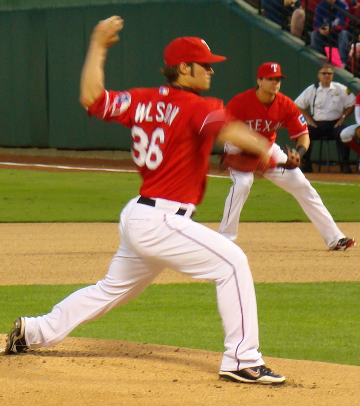 CJ Wilson, Texas Rangers starter.